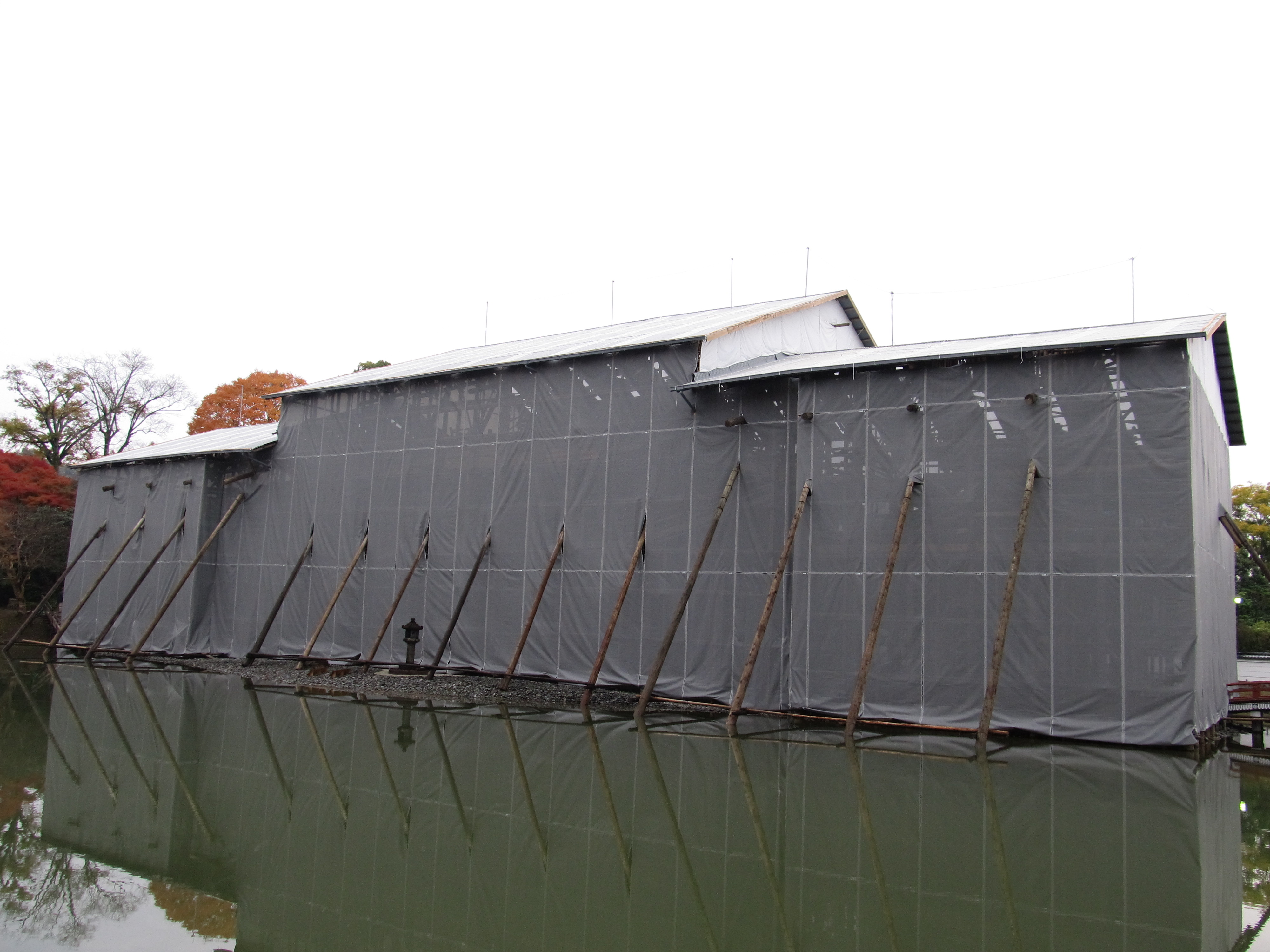 Japanese national treasure Byōdōin Hōōdō (Phoenix Hall) covered with temporary roof on November 2012.